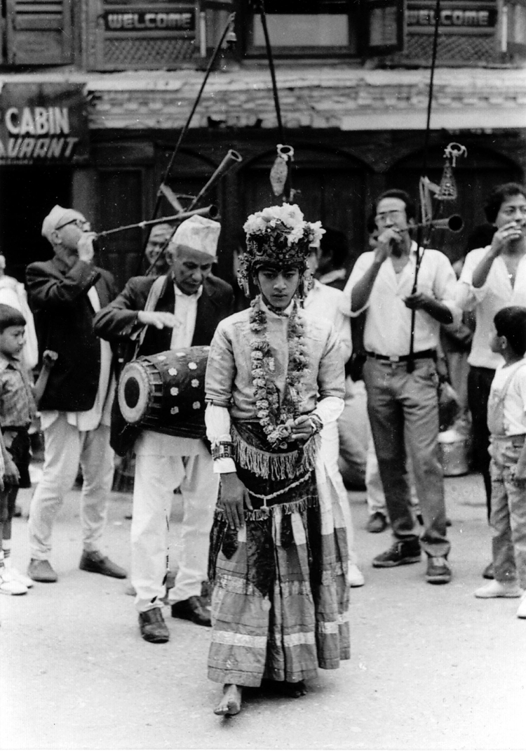 A boy impersonating a deity performs the Kumha Pyakhan sacred dance to the accompaniment of a drummer and trumpet players in Kathmandu. This dance is performed by the Tuladhar caste.